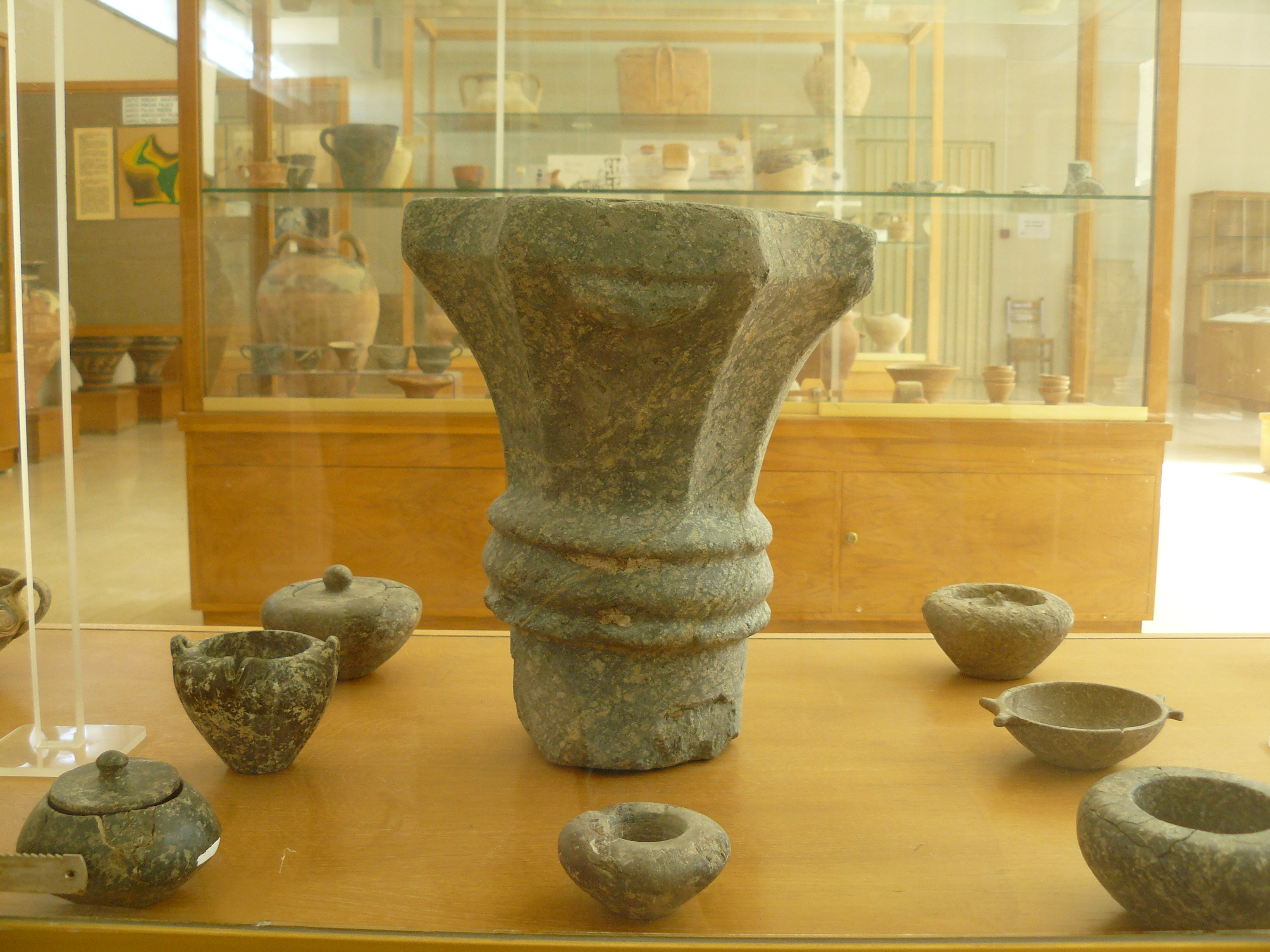 Archaeological Museum of Sitia, Minoan stone vases from the island Psira.